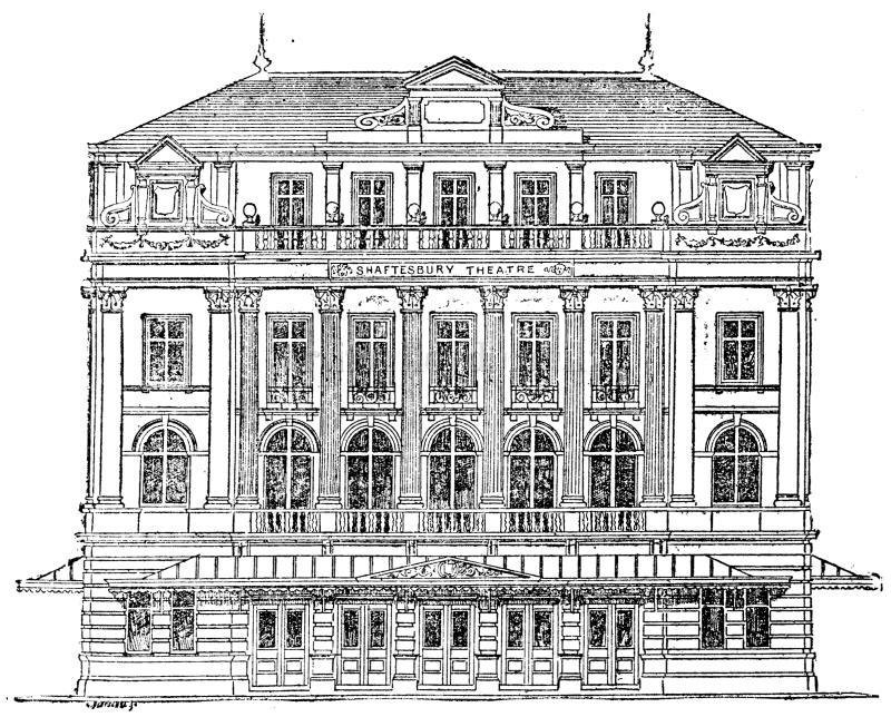 A Sketch of the original Shaftesbury Theatre, London.